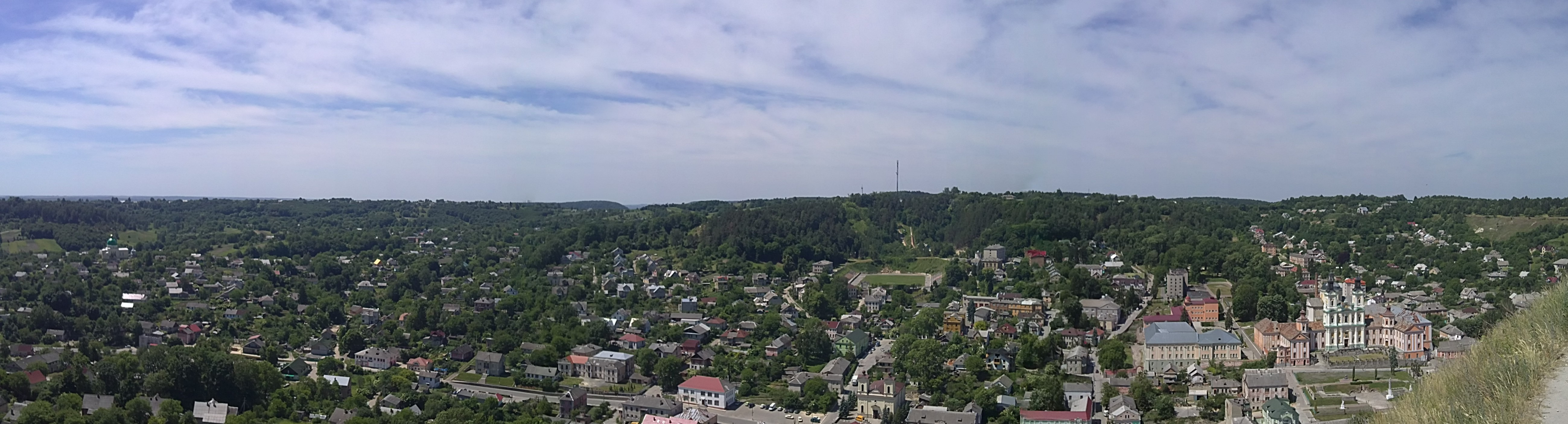 Kremenets panorama from the Castle Hill